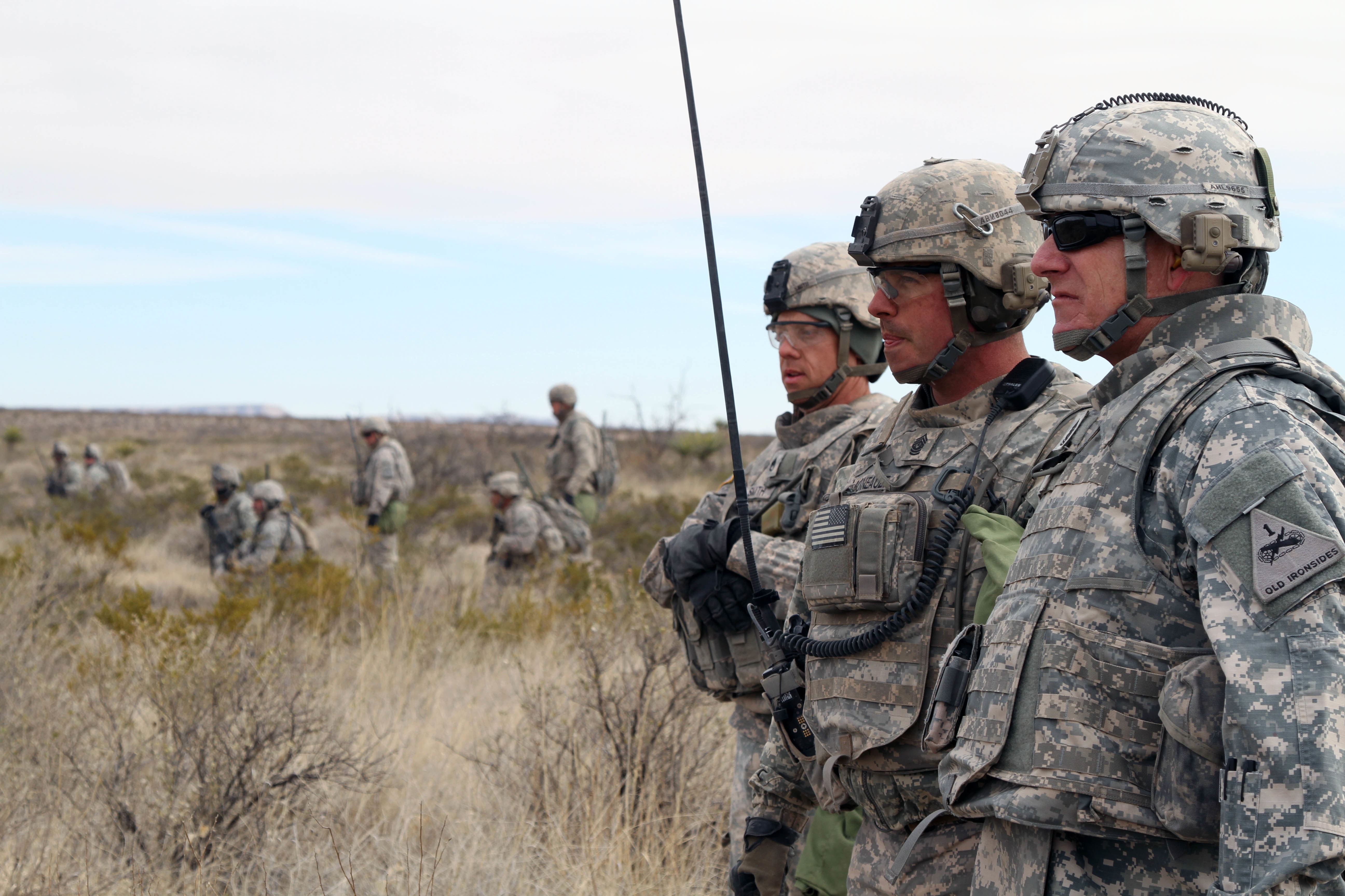 Command Sgt. Maj. Lance P. Lehr, 1st Armored Division and Fort Bliss command sergeant major, observes Soldiers from the 4-17 Infantry Platoon, Fort Bliss, train under live firing Feb. 23, 2015, at Malakand Village.